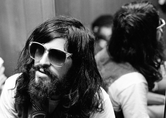 Devendra Banhart, Venezuelan-American folk rock singer-songwriter and musician